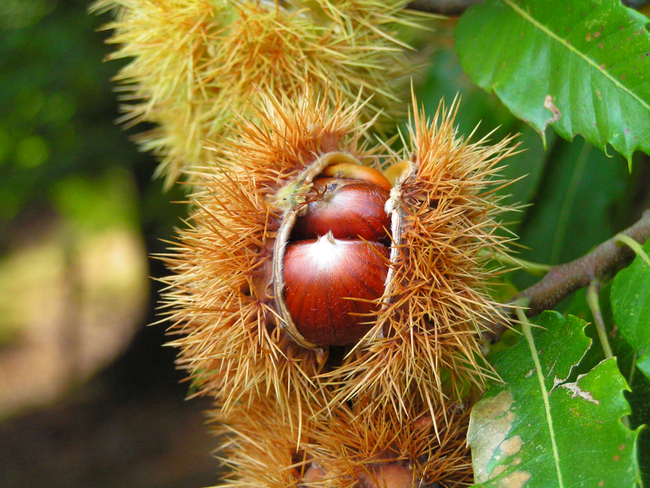 The Sweet Chestnut is a tree (Castanea sativa, family Fagaceae) native to southern Europe and Asia Minor. It is often a large tree attaining a height of 20–35 m with a trunk often 2 m in diameter. The oblong-lanceolate, boldly toothed leaves are 16–28 cm long and 5–9 cm broad. The flowers of both sexes are borne in 10–20 cm long, upright catkins, the male flowers in the upper part and female flowers in the lower part. They appear in late June to July, and by autumn, the female flowers develop into spiny cupules containing 3–7 brownish nuts that are shed during October.